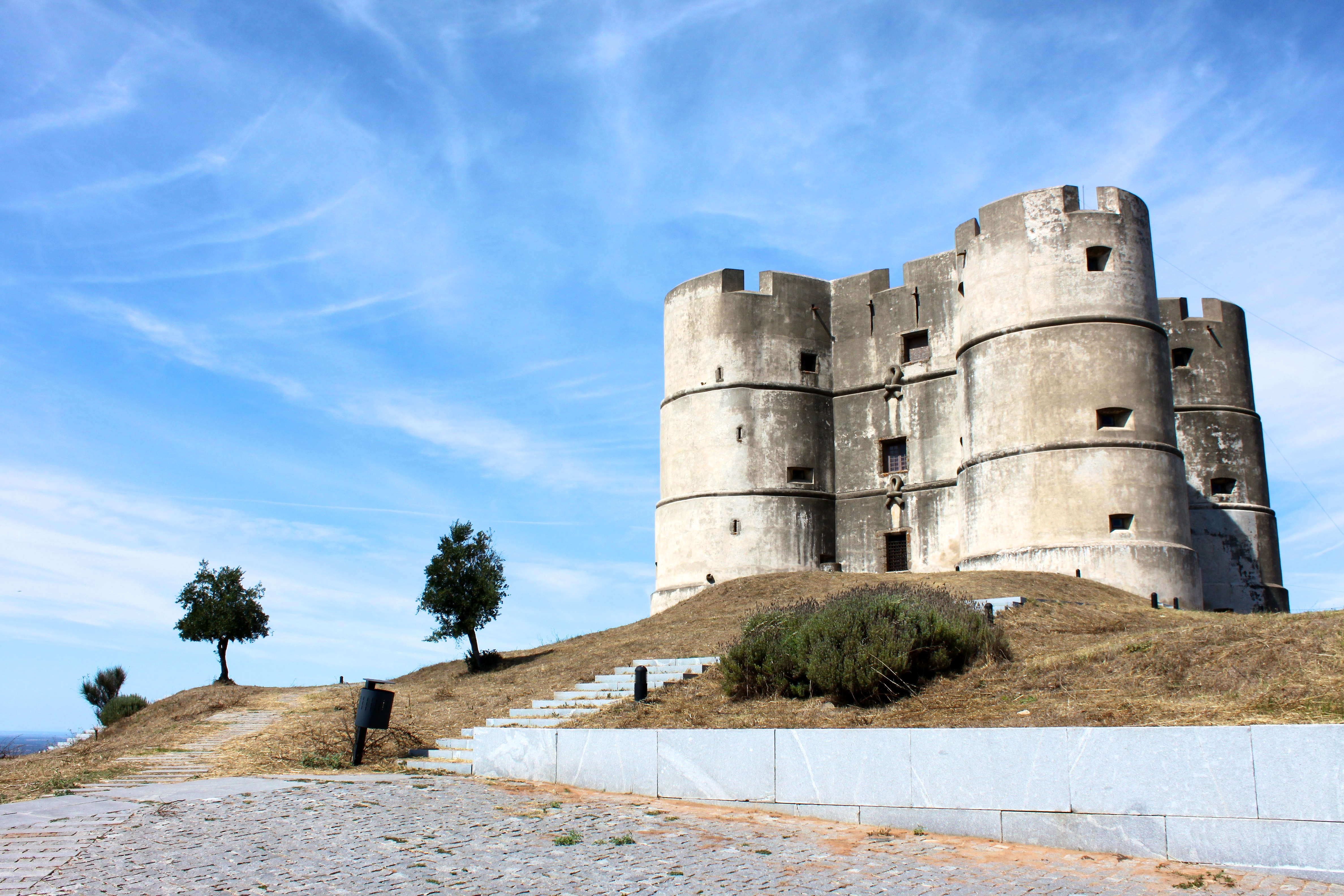 This file was uploaded for Wiki Loves Monuments in Portugal with the unique identifier 70670.